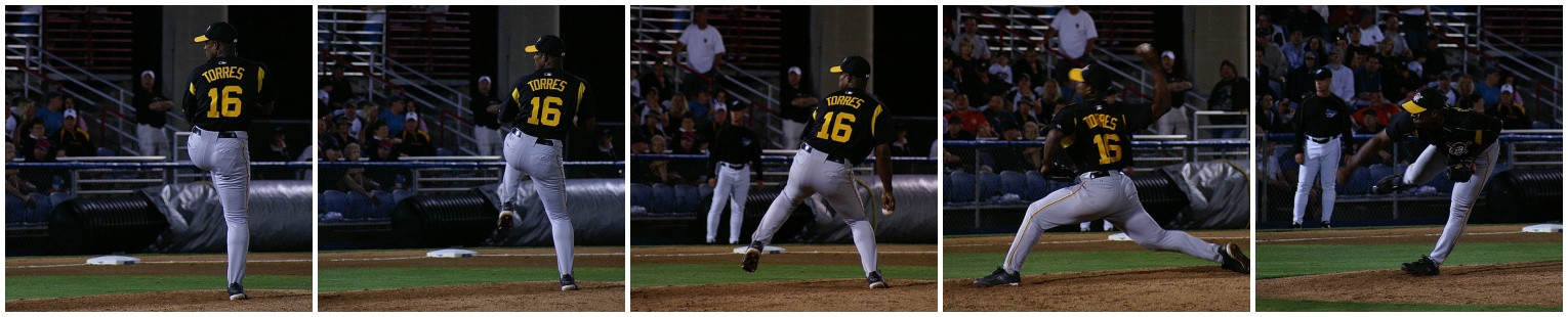 Pittsburgh Pirates' pitcher Salomón Torres. Created with fd's Flickr Toys.